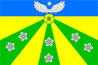 Flag of Oktyabr'skoe rural settlement, Krasnodar Territory, Russia